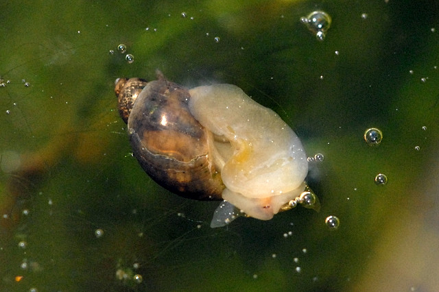 Picture taken in Commanster, Belgian High Ardennes . Species: Lymnaea stagnalis